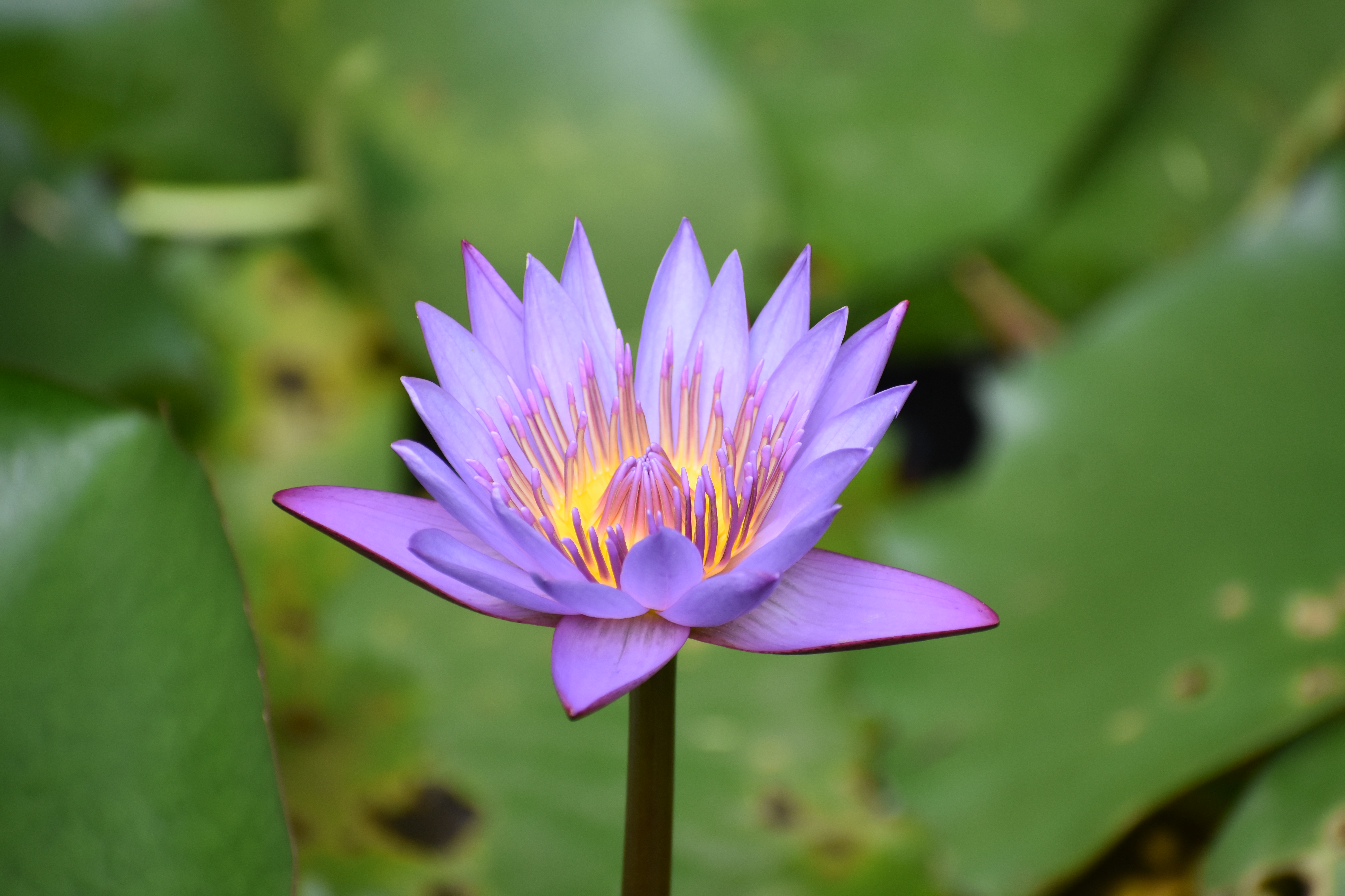 This Lotus is seen in Chinmay Vibhuti.